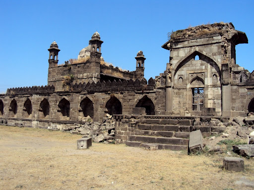 The fort and mosque at Rohinkhed. This mosque was built by Khudawand Khan, the Mahdavi, in 1582.